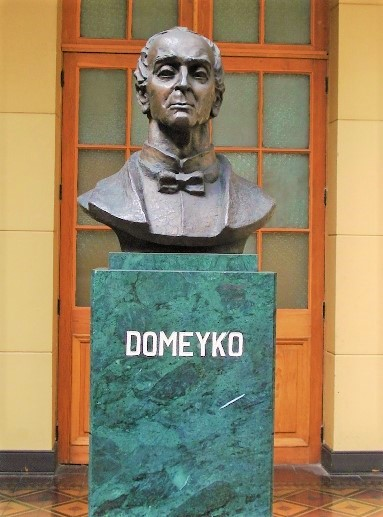 Bust of Ignacy Domeyko, main building of the University of Chile